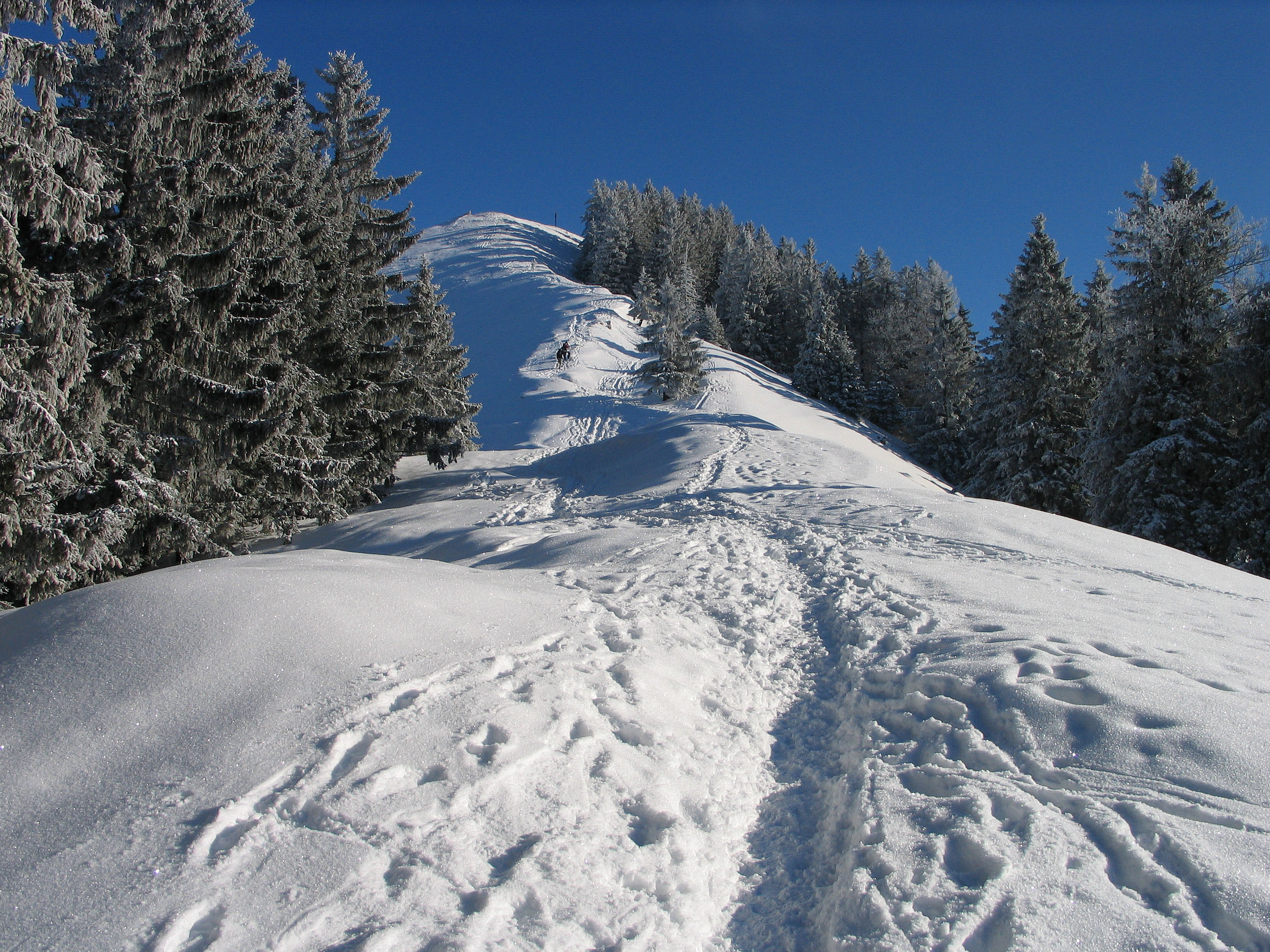 Baumgartenschneid